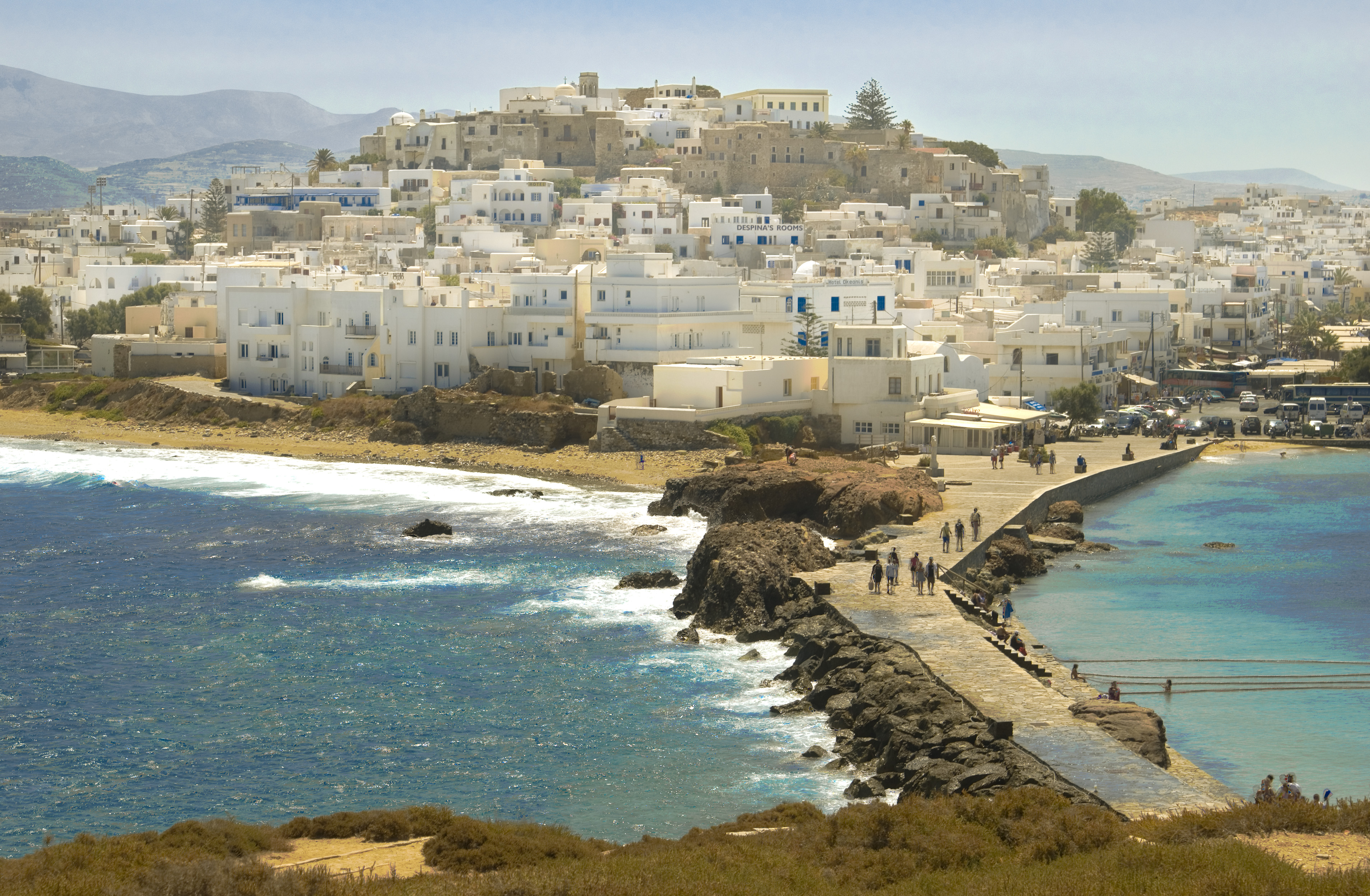 Naxos (in Greek, Νάξος) is a Greek island, the largest island (429 km2 (166 sq mi)) in the Cyclades island group in the Aegean. It was the centre of archaic Cycladic culture. Taken from the Apollon's Gate.